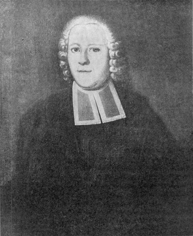 Johan Browallius, bishop of Turku